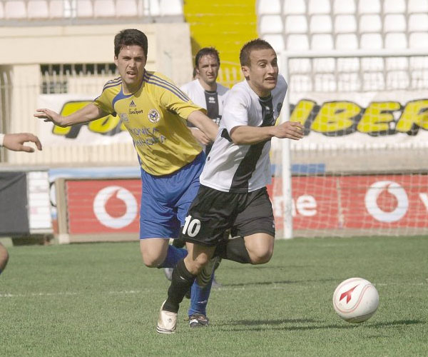 Picture of Brian Said and Andrew Cohen.